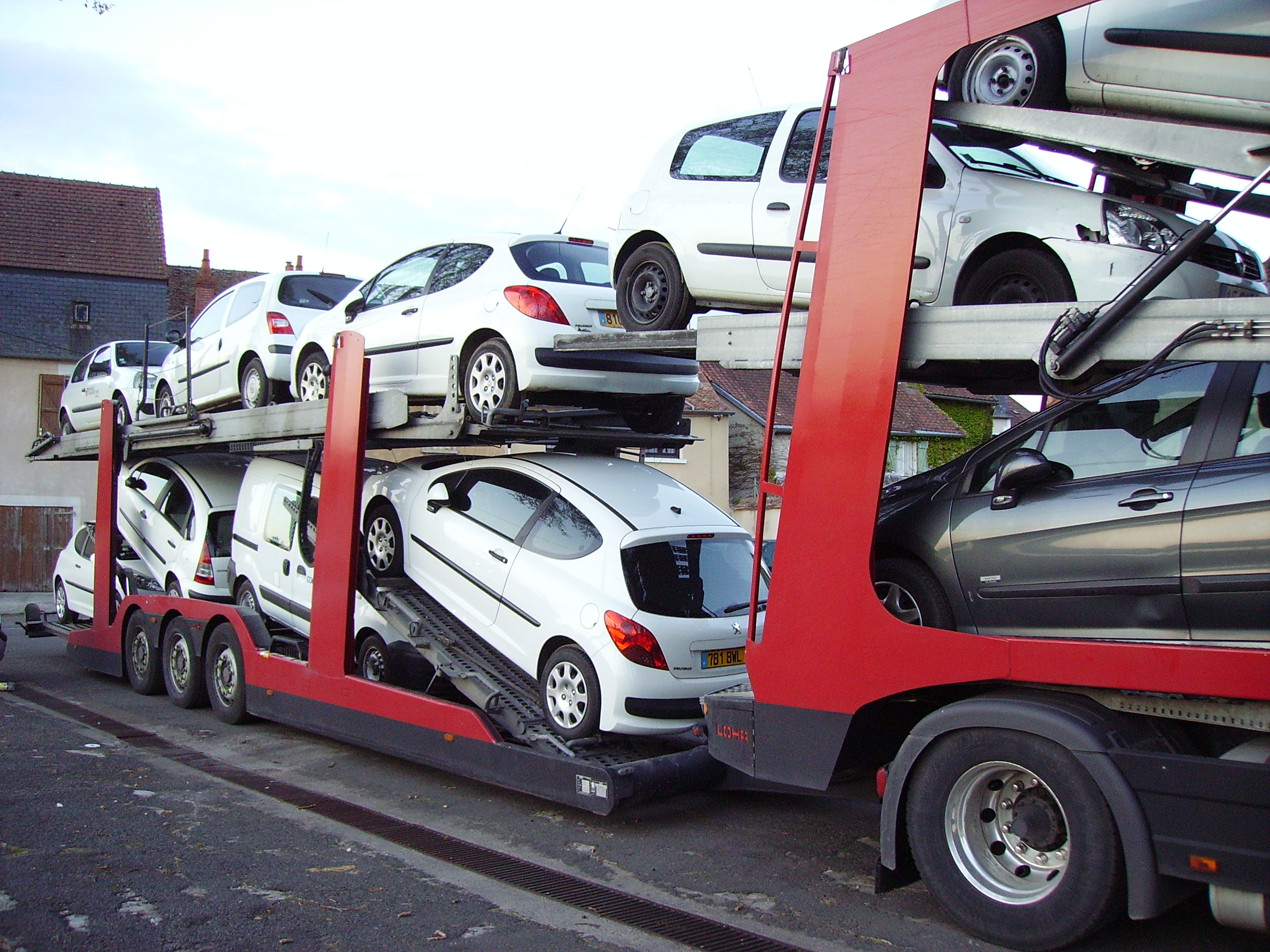 Lohr car transporter system.